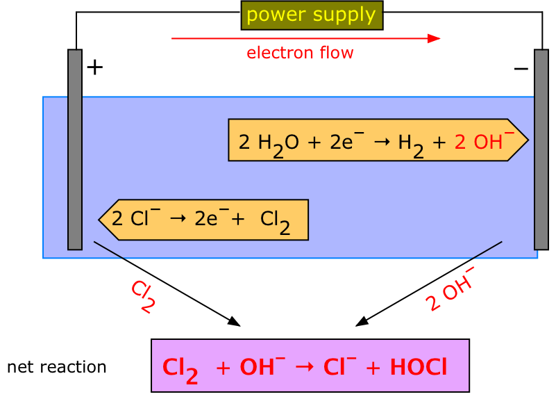 Electrolysis of an aqueous solution of sodium chloride